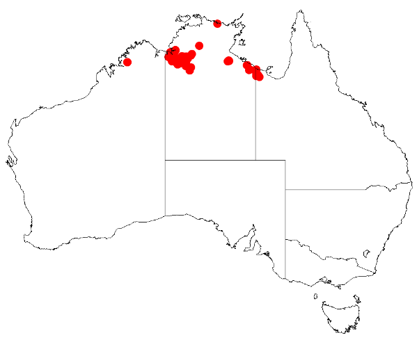 Acacia conjunctifolia Occurrence data from Australasia Virtual Herbarium downloaded from on 8 December 2018